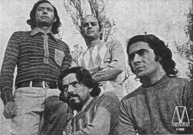 Los Andariegos. Folk group. Argentina